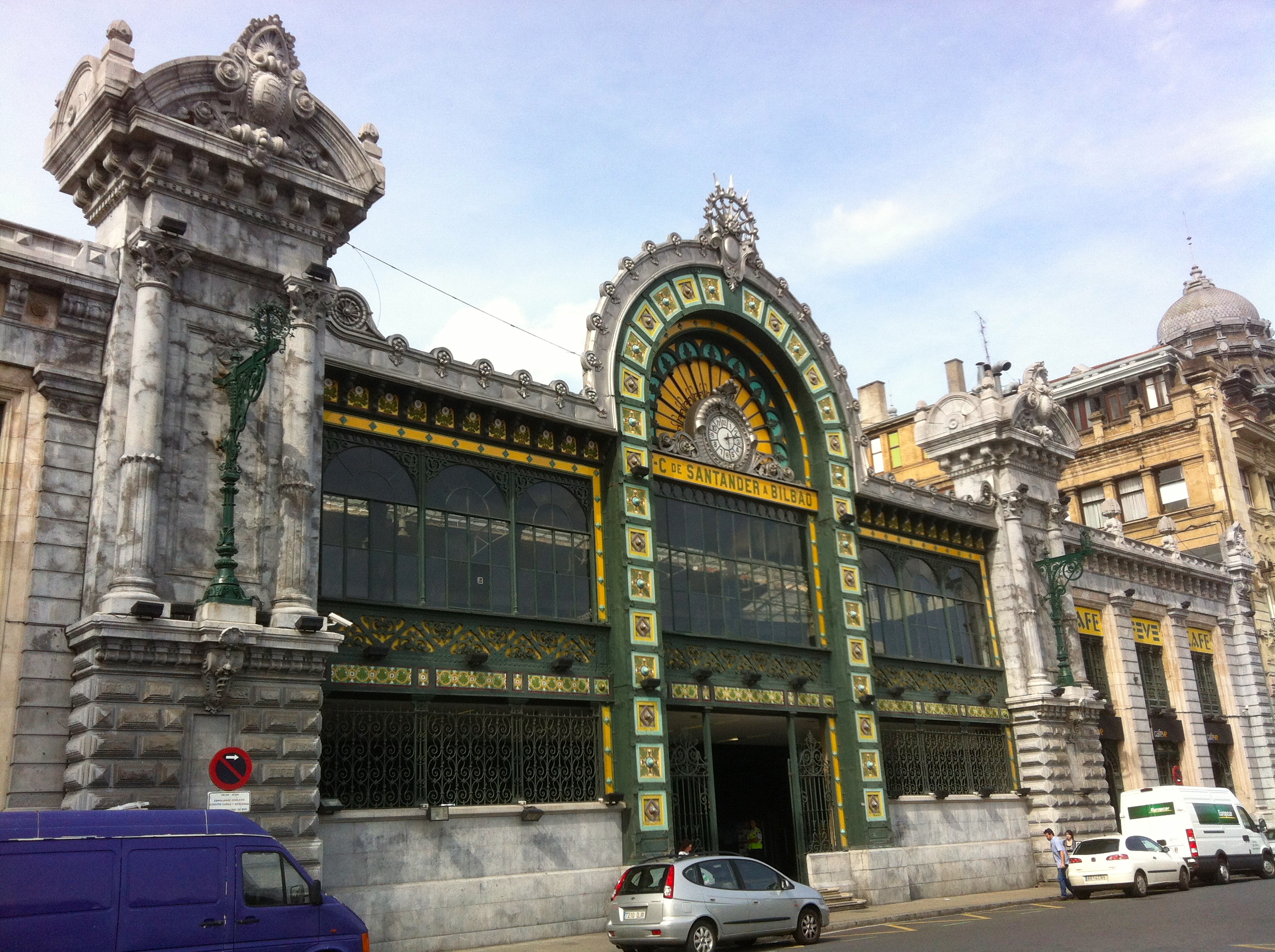 Bilbao Railway Station - 2